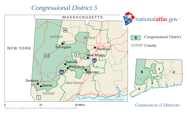 Map of Connecticut's 5th congressional district. Downloaded from and converted to PNG.